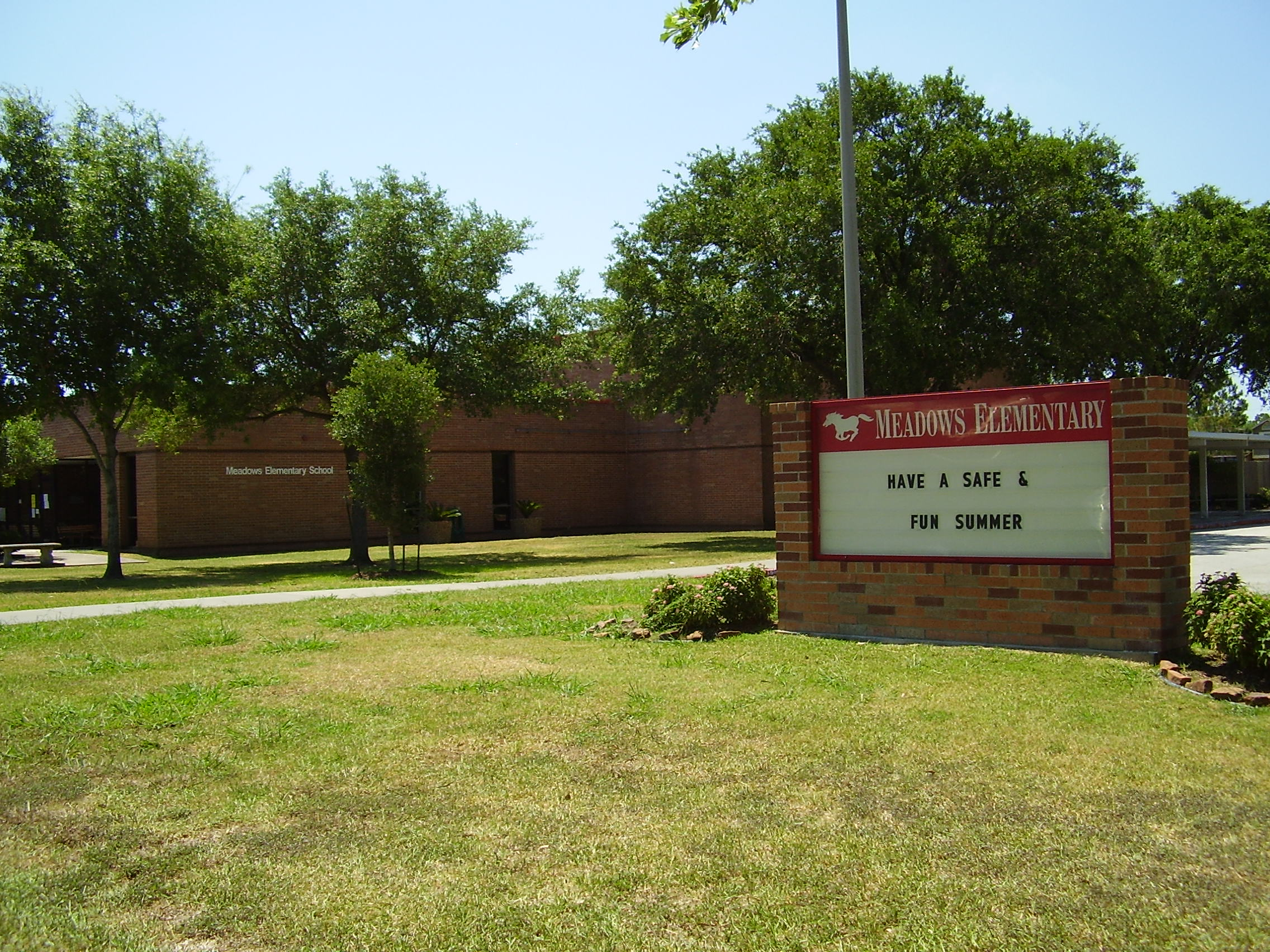 Meadows Elementary School